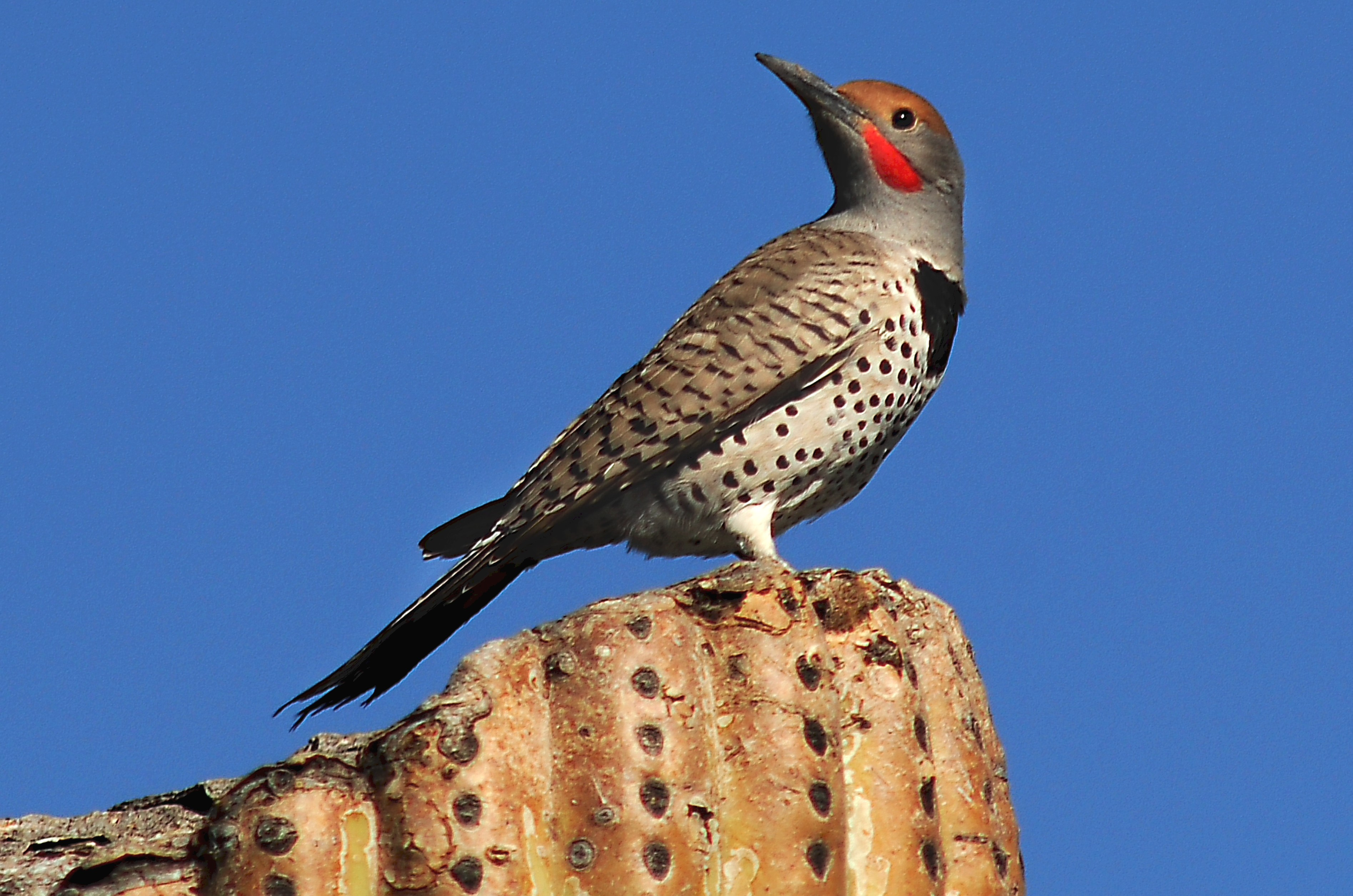 Gilded Flicker (Colaptes chrysoides) on top of a cactus. Nikon D200 - Ai Nikkor 300mm 1:4.5 + TC-14B Teleconverter - 1/1000 sec - f/8 - ISO 220